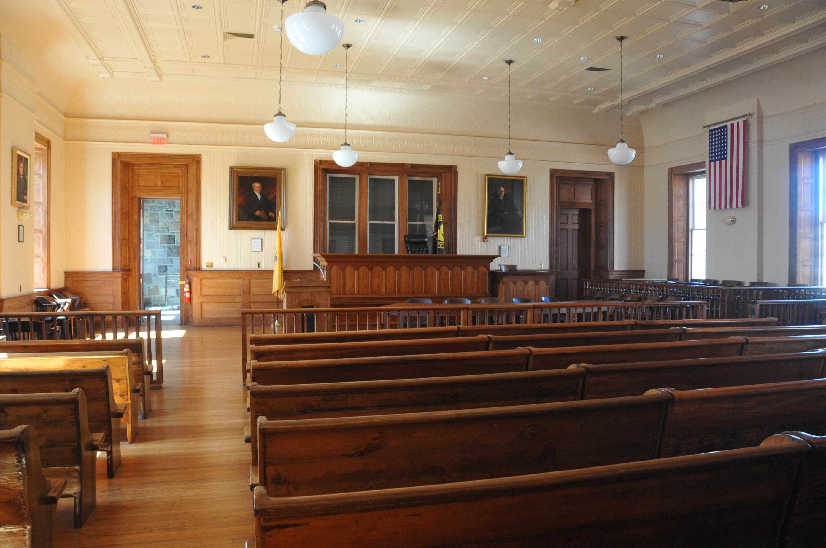 COURTROOM IN THE COURTHOUSE WHERE THE FAMOUS 1935 TRIAL FOR BRUNO HAUPTMANN WAS CONDUCTED FOR THE LINDBERGH KIDNAPPING